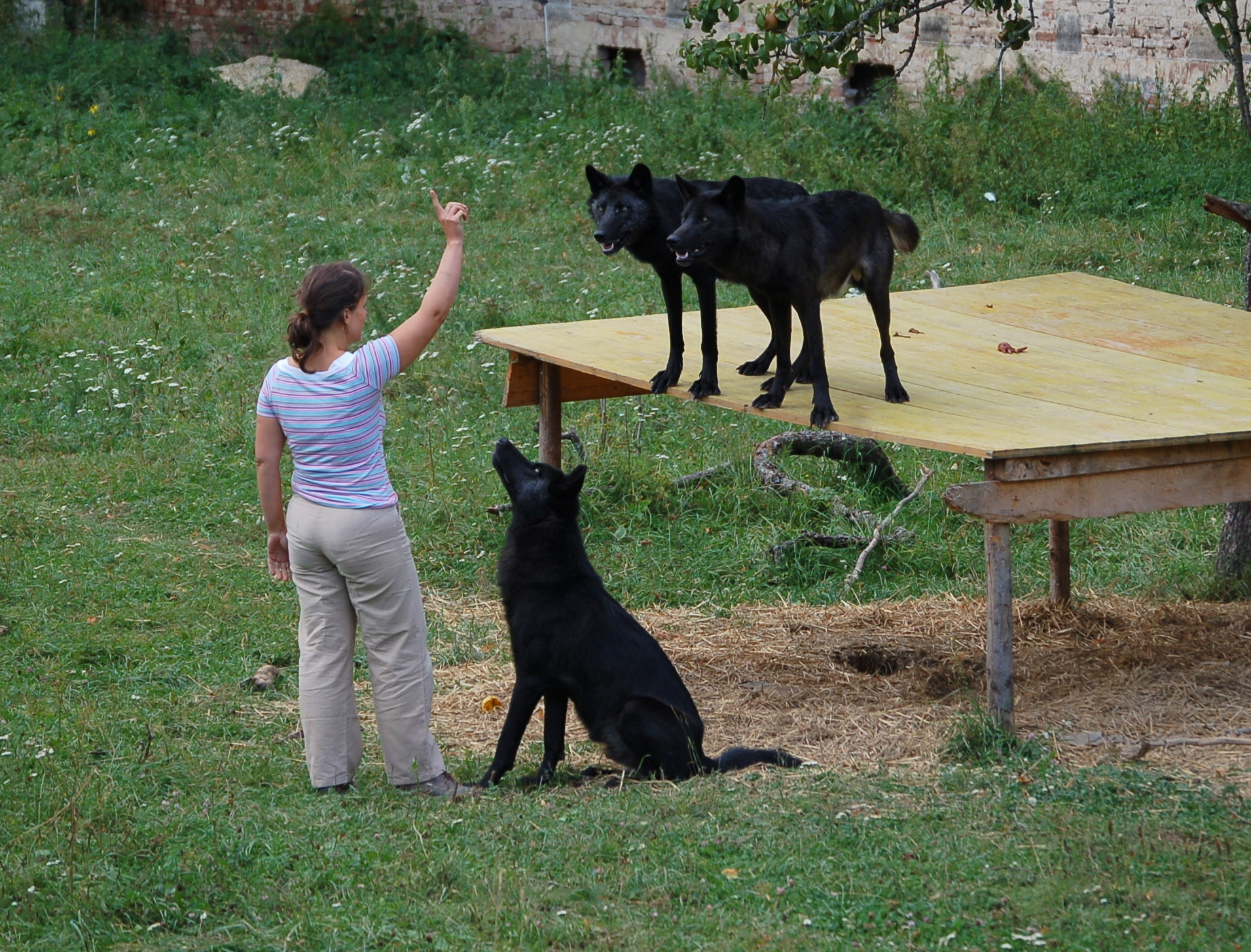 Gray wolves at Wolf Science Center, Ernstbrunn, Lower Austria